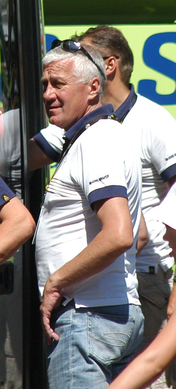 Patrick Lefevere at the start of stage 8 in Le Grand Bornand, Tour de France 2007.